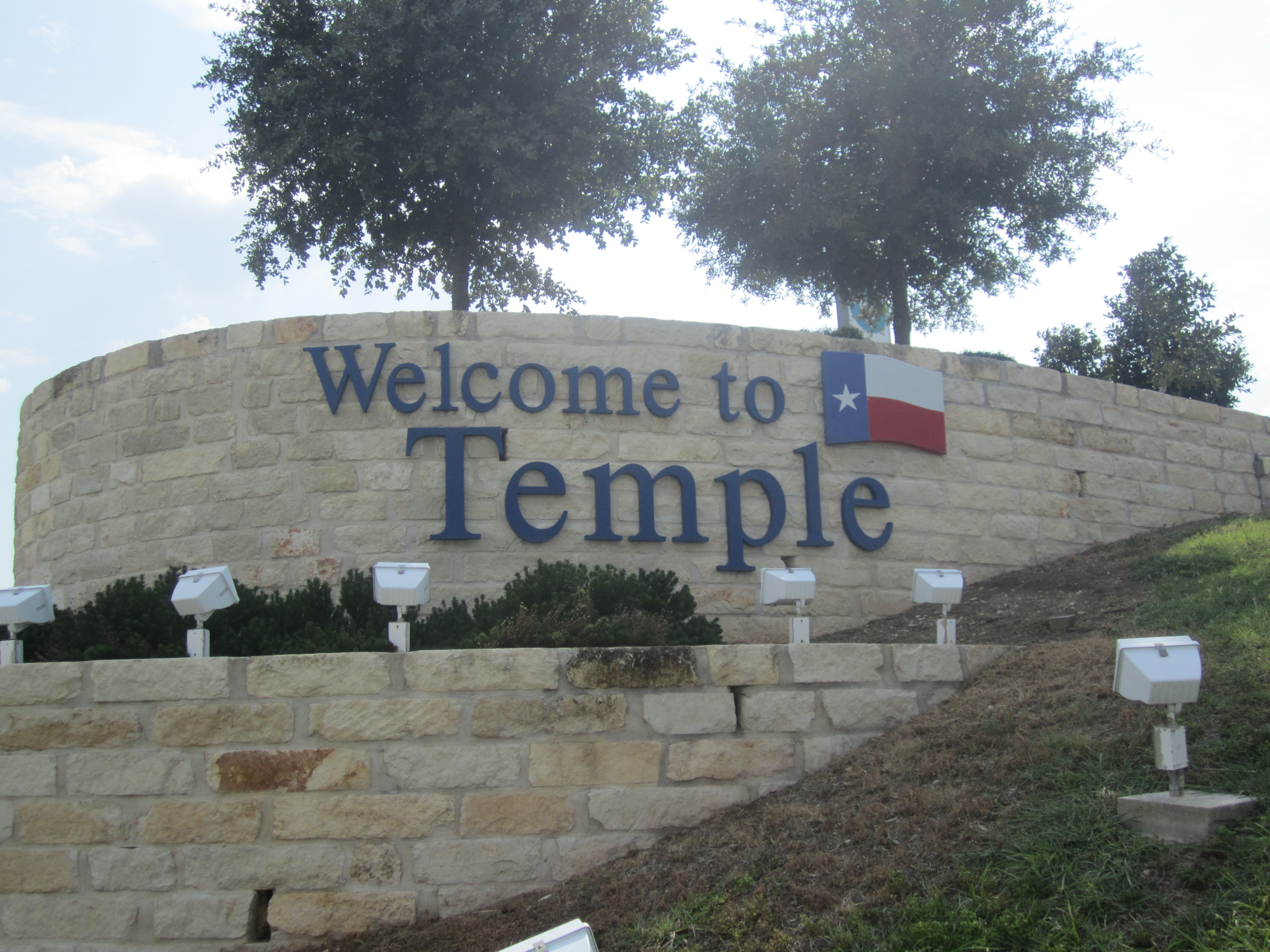 I took photo with Canon camera in Temple, TX.